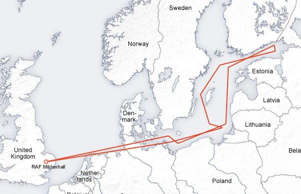 This navigation route depicts a Generic Reconnaissance route from RAF Mildenhall by USAF RB-47H aircraft in the period 1957.--plumalley